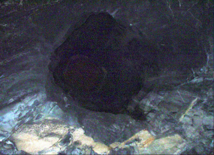 The vertical central shaft of the CPRR "Summit Tunnel" (Tunnel #6) at Donner Summit which allowed drilling and excavation of the tunnel to be carried out on four faces at once during construction of the 1,659 foot tunnel over a period of 15 months in 1866-67. Original digital photograph taken by the uploader (Centpacrr) inside the Summit Tunnel in August, 2003.